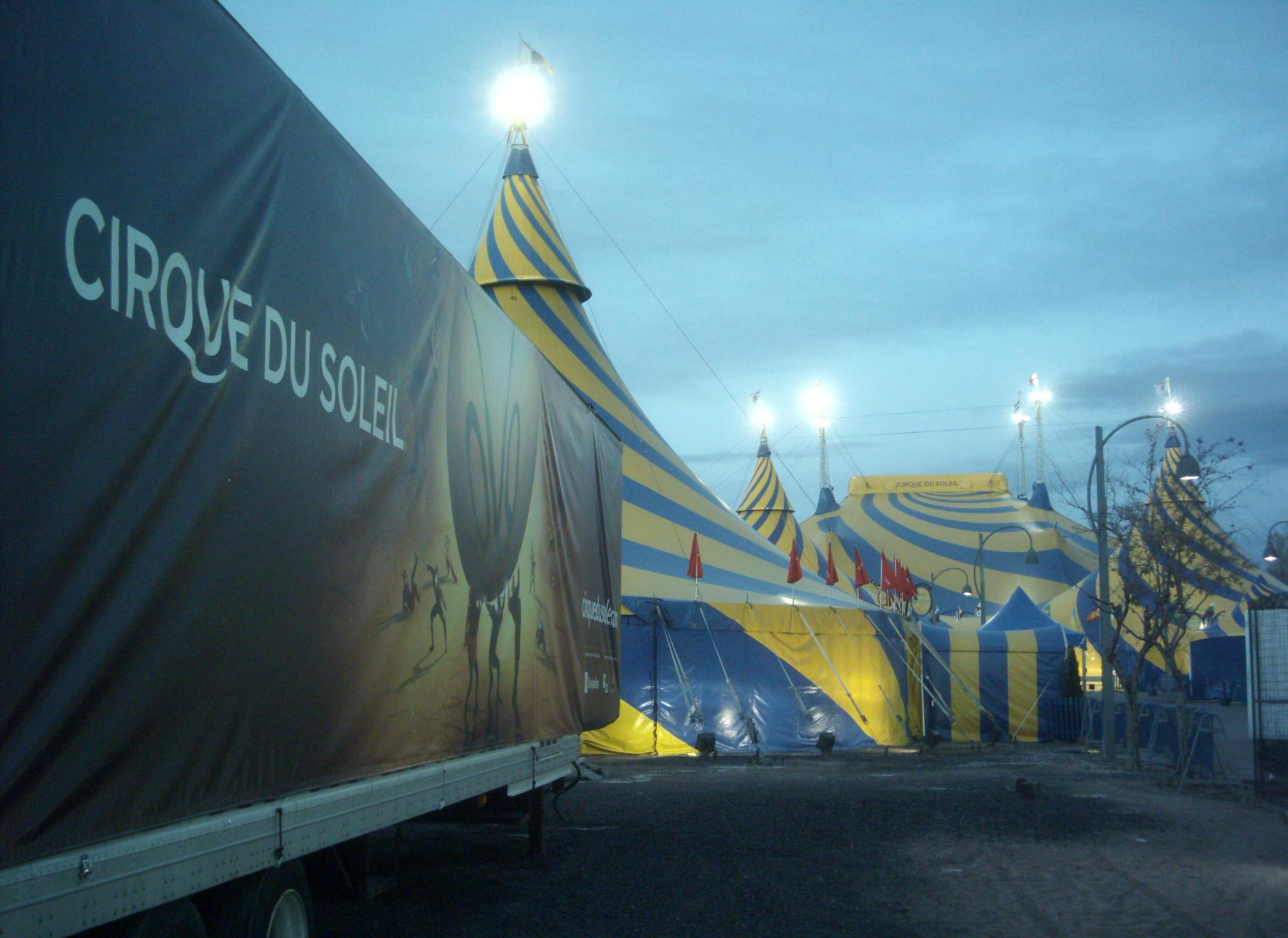 Cirque du Soleil's Grand Chapiteau at Montréal's Vieux-Port. This installation is of the show Ovo.